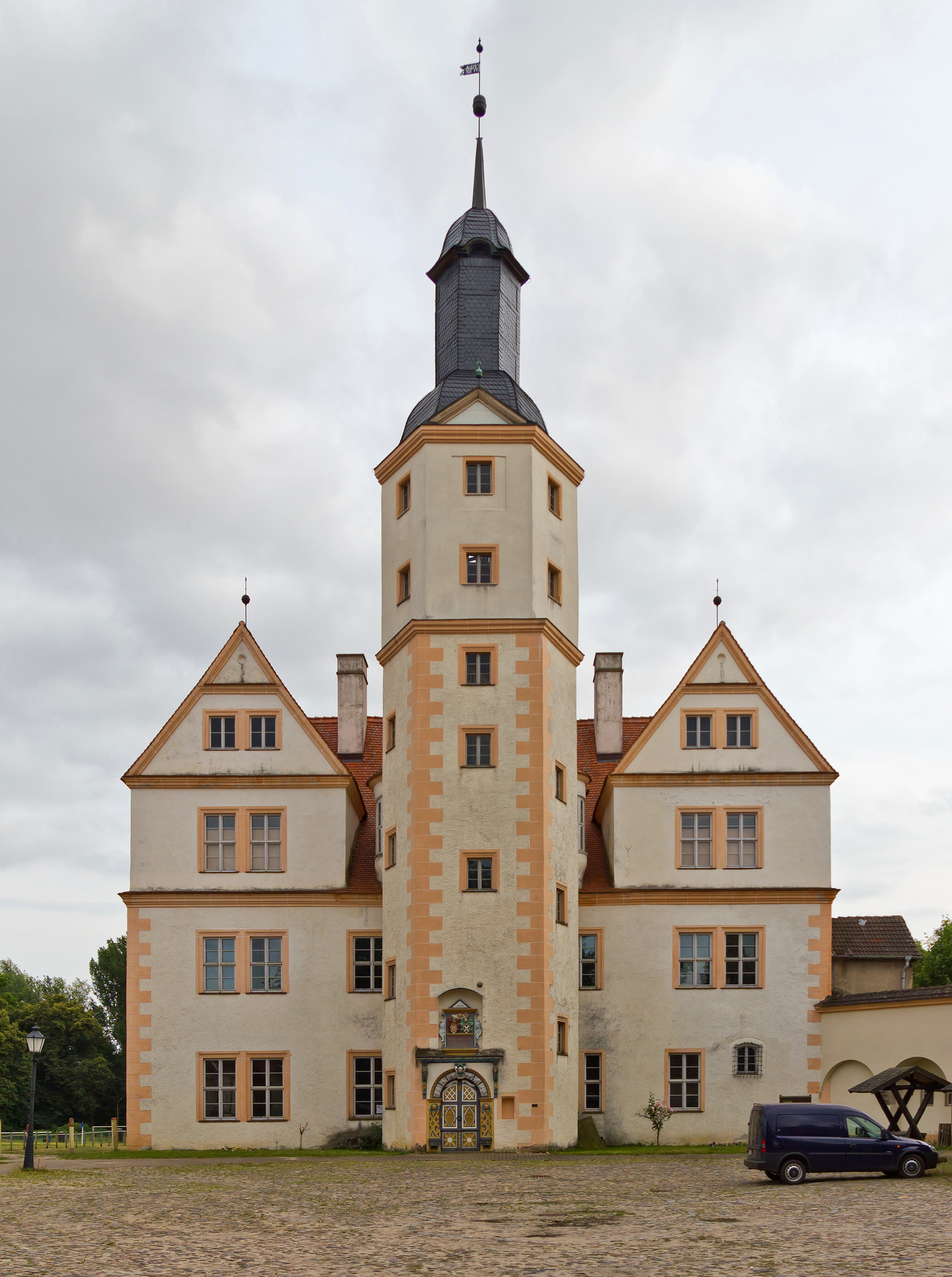 Demerthin Castle in Gumtow, Brandenburg, Germany.